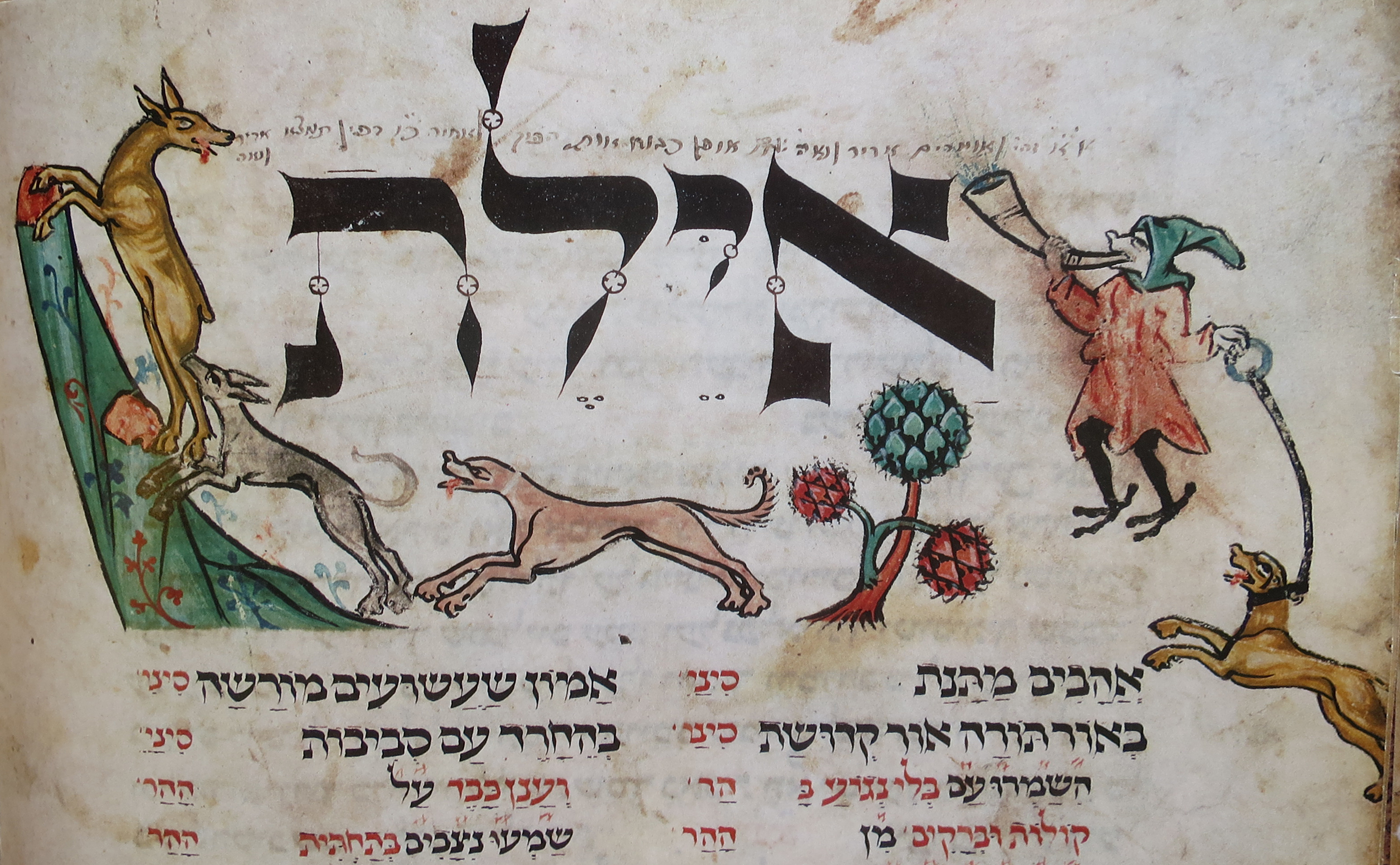 Machsor of Worms